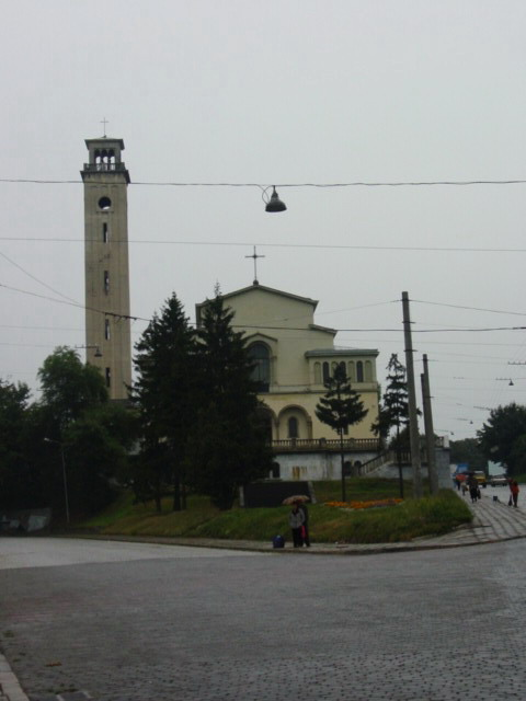 Church of MB Ostrobramska in Lwów